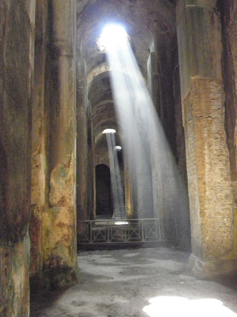 Baja